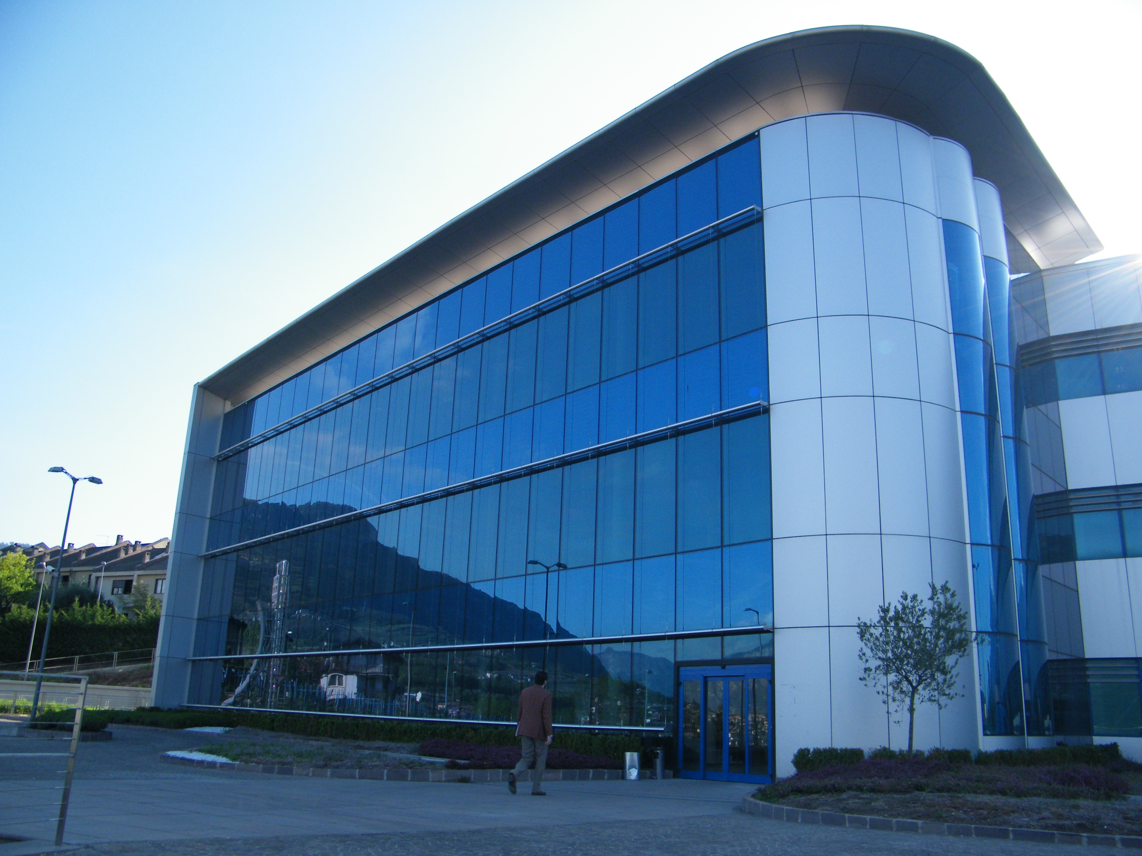 University of Trento: Faculty of Science building (2009)